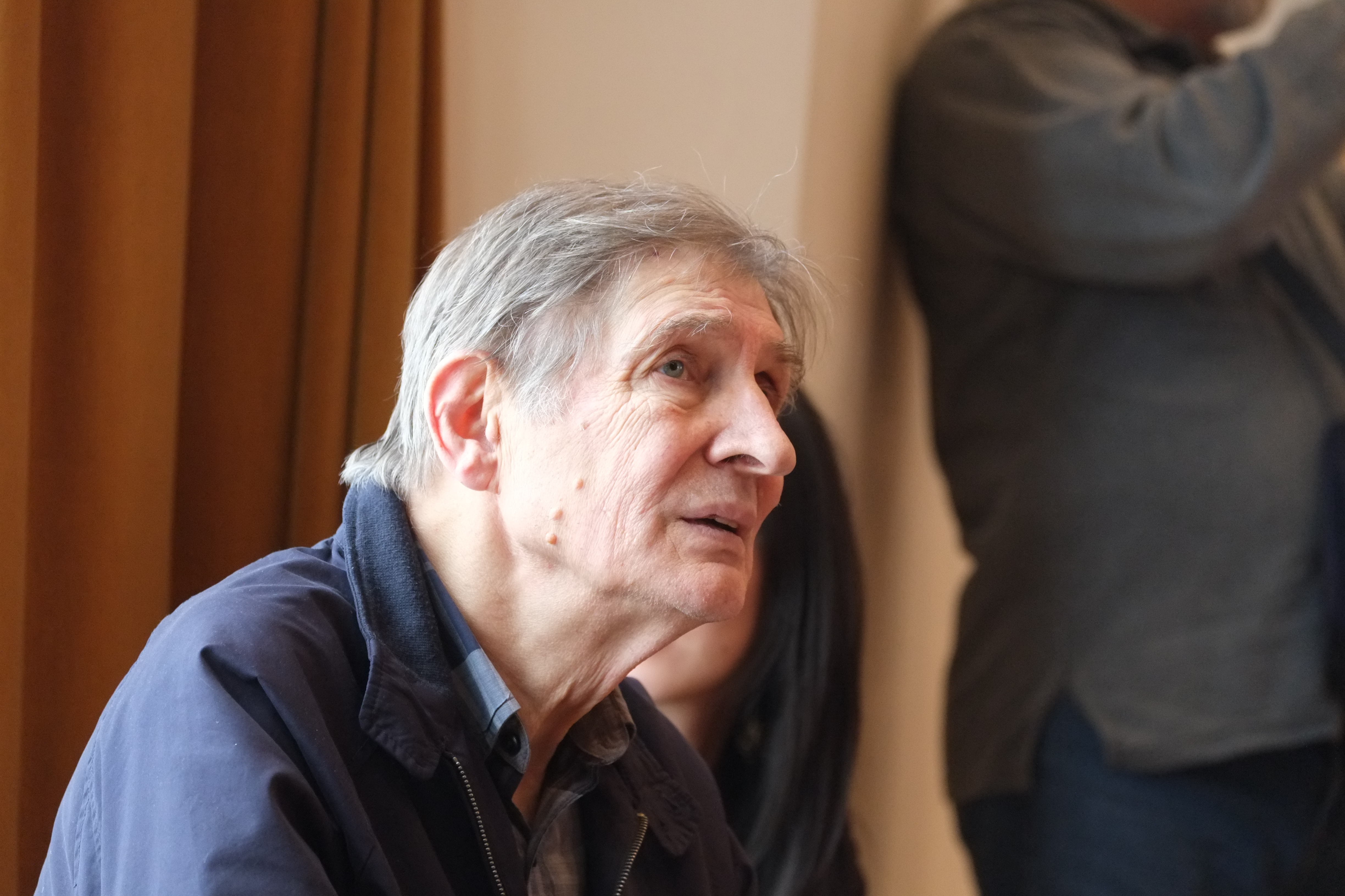 The first session of the intellectuals Congress "Against war, against self-isolation of Russia, against restoration of totalitarism", Moscow, March 19 2014, Large hall of Library For Foreign Literature.